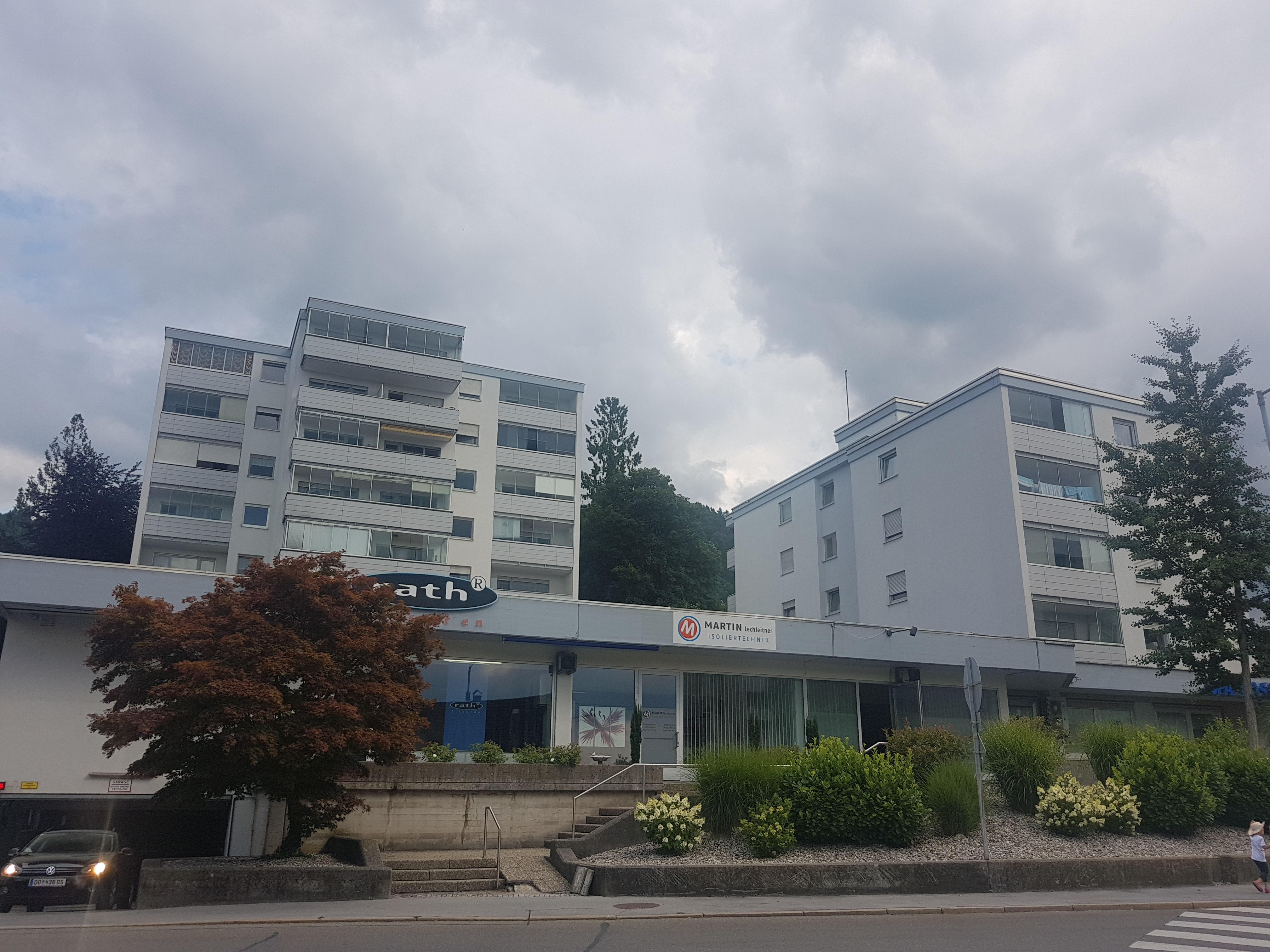 View from the street "Stiglingen" to the houses Mitteldorfgasse 1 and 1a in Dornbirn, Vorarlberg, Austria. Here originally stood over many centuries the Grafenhaus.